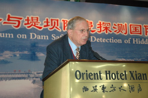 François Lempérière in Xi’an, China, at International Symposium on Dam Safety and Detection of Hidden Troubles of Dams and Dikes (November 2005)